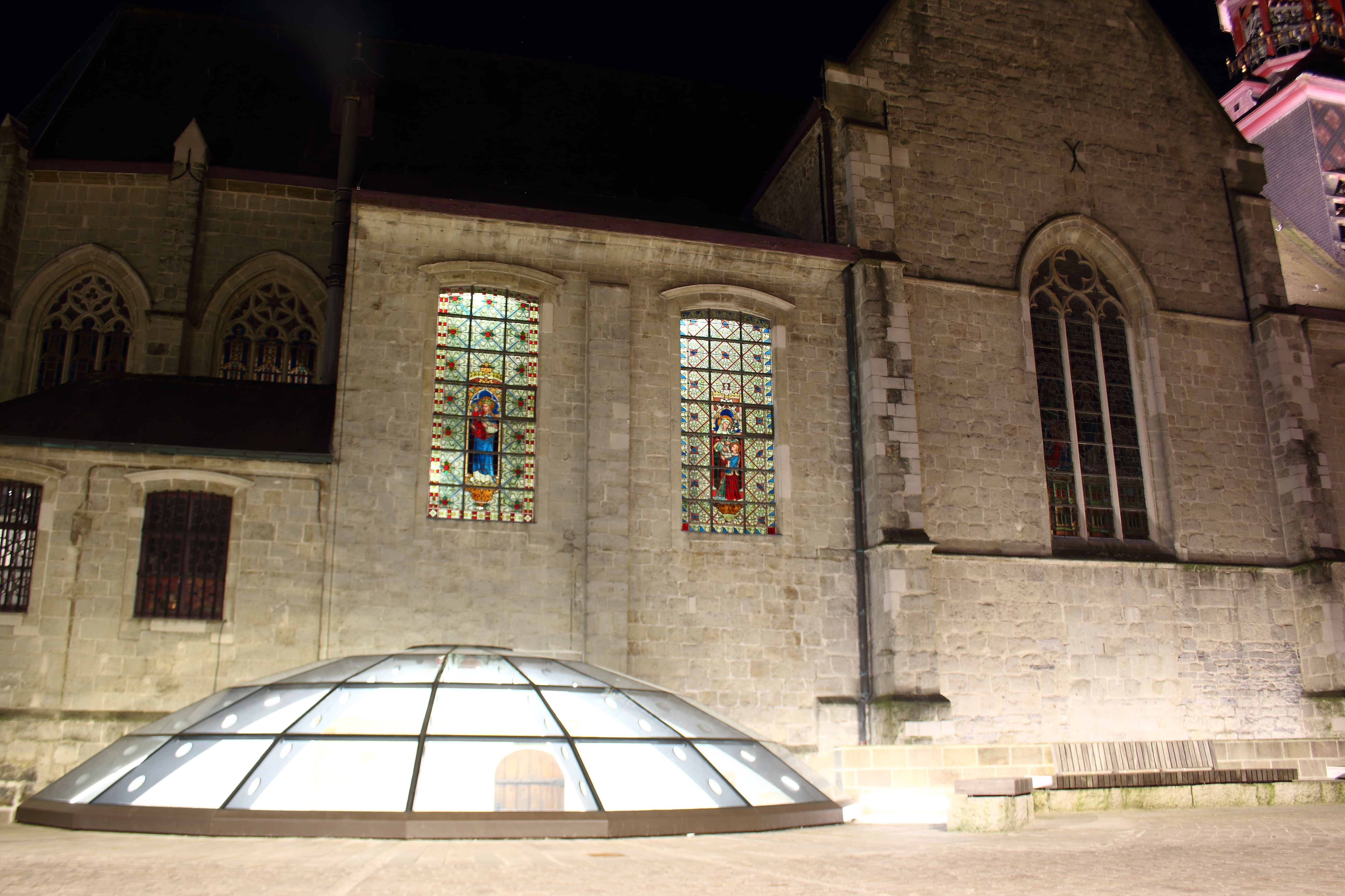 Egmont's crypt, market square, Zottegem, Flanders, Belgium